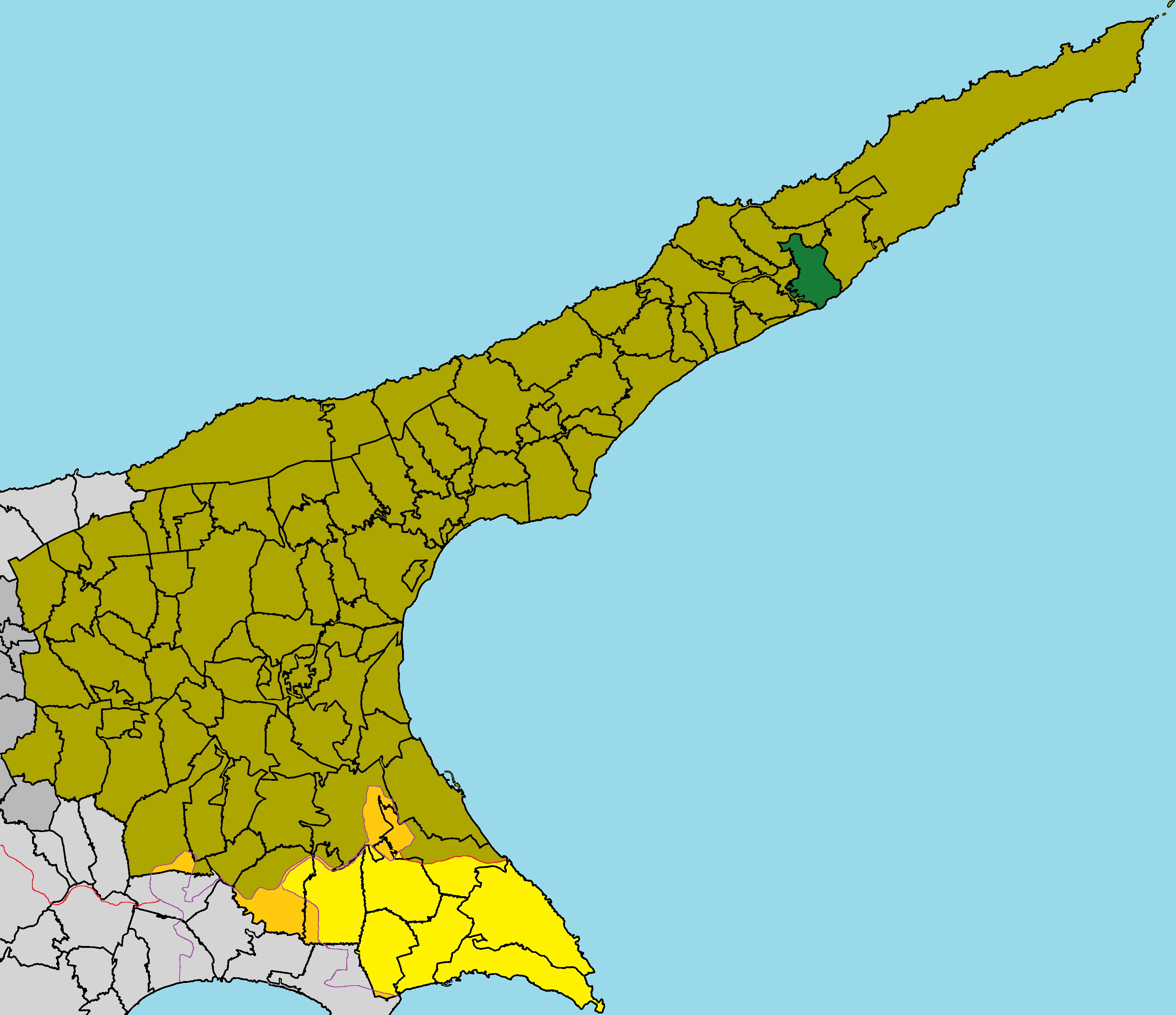 Koroveia in Famagusta District (de jure).